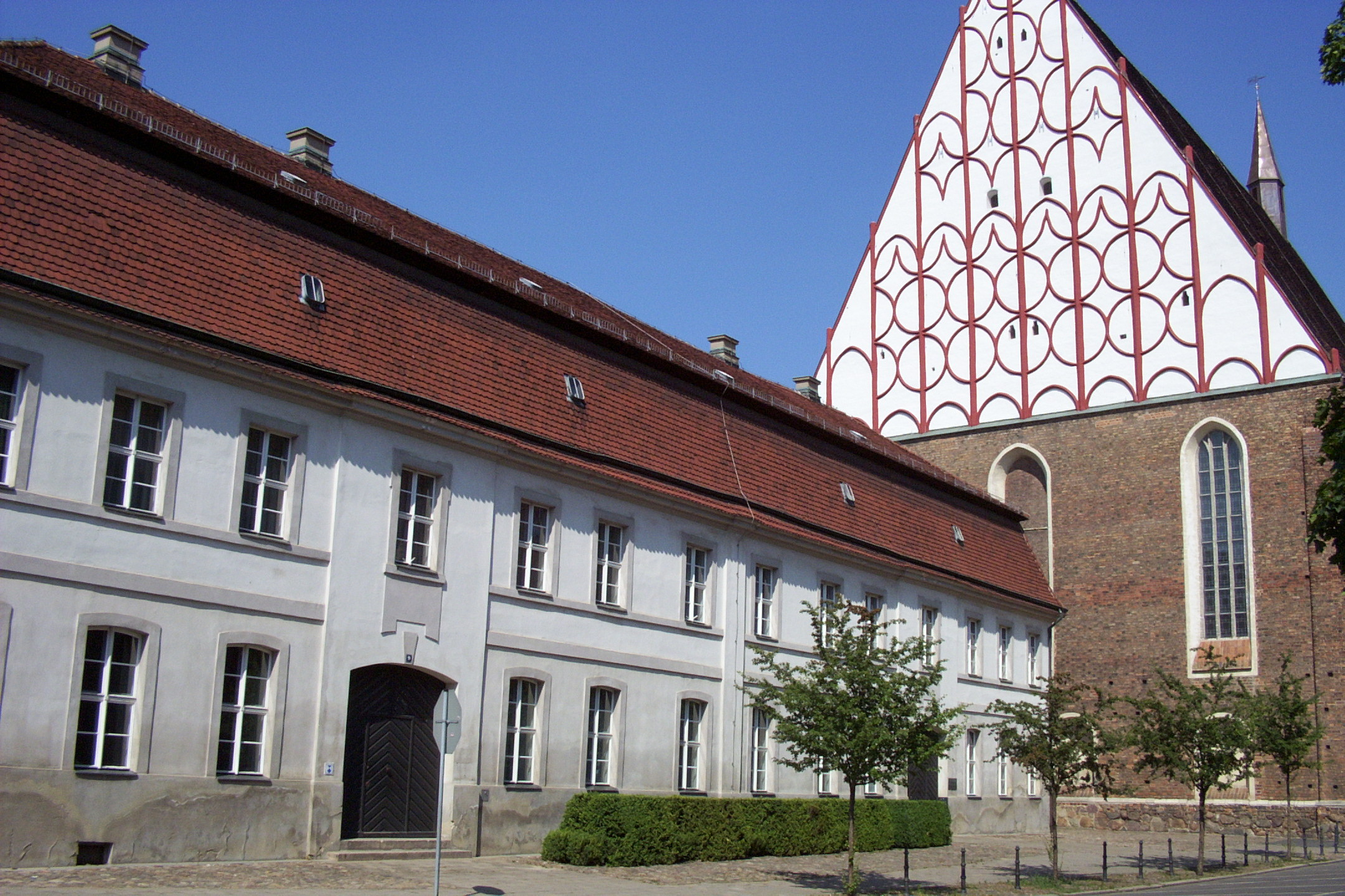 The Frankfurt (Oder) city archive and concert hall